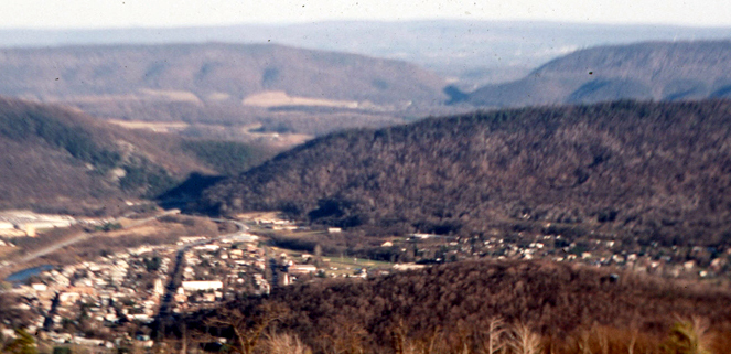 Photo of water gaps in Bedford County, Pennsylvania, facing east from the top of Kinton Knob, Wills Mountain. Taken and Uploaded by James Stuby.